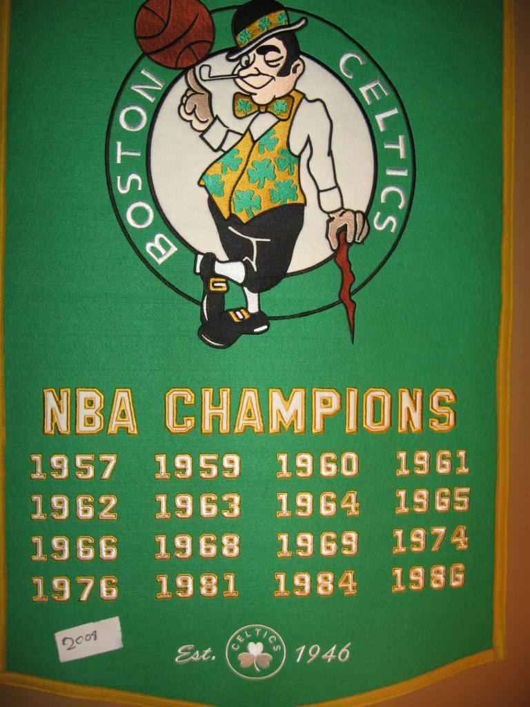 C's banner